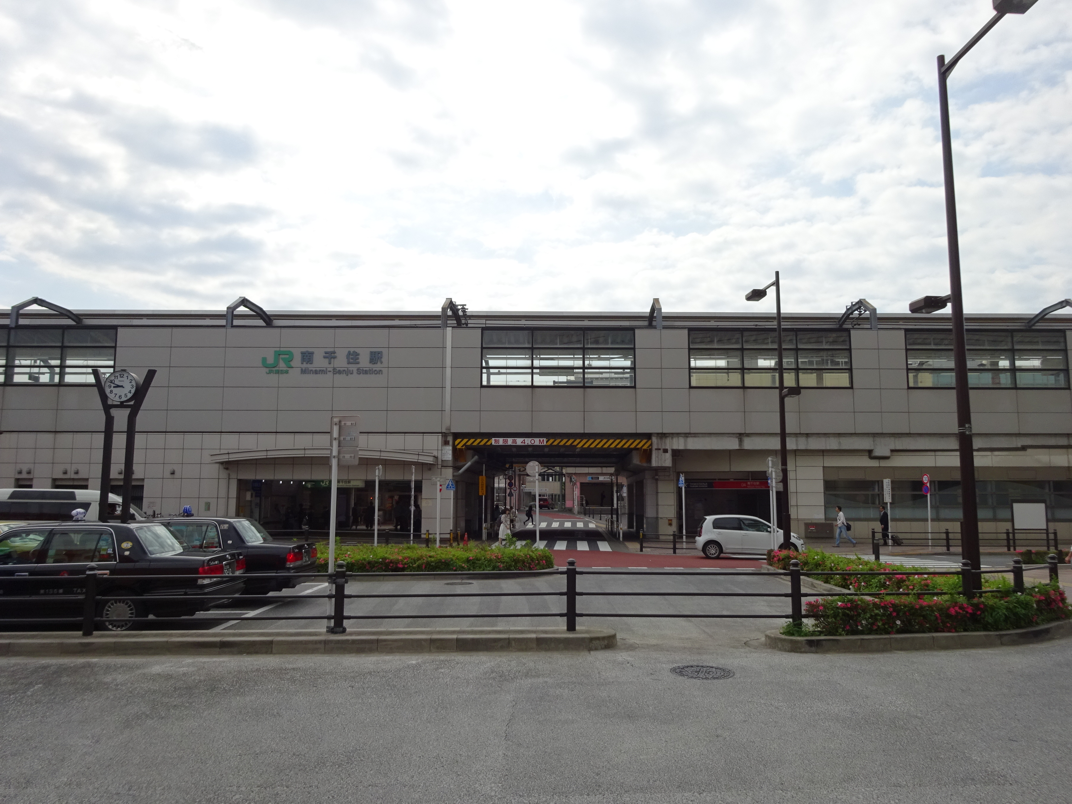 Minami-Senju Station